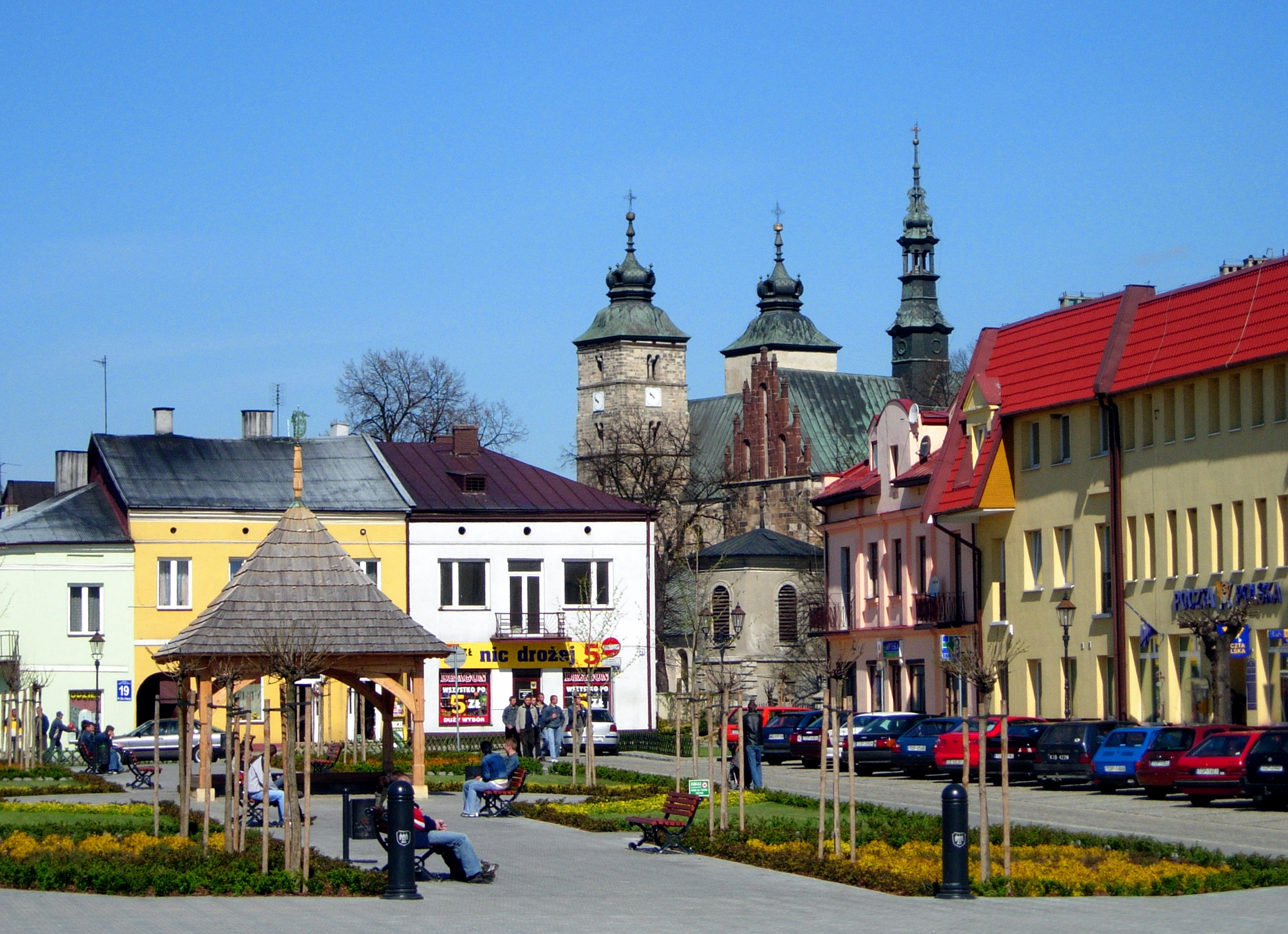 Market square in Opatów